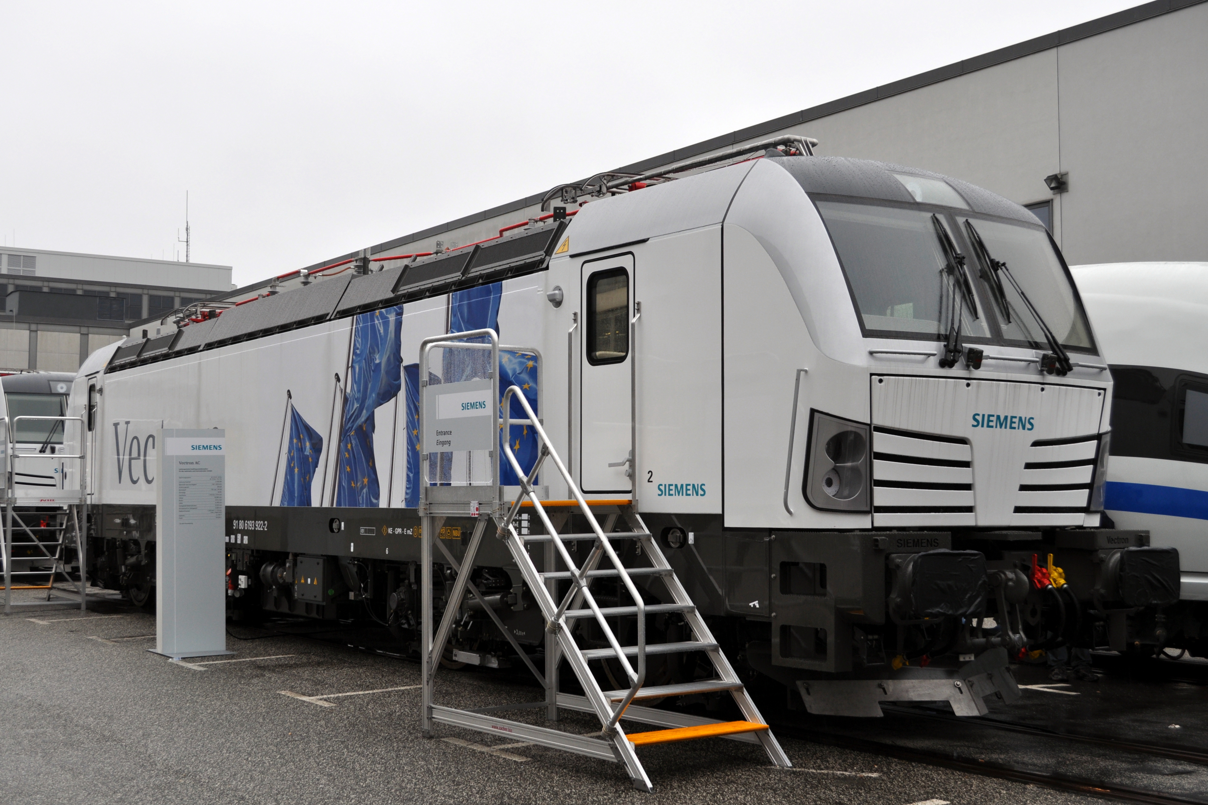 Siemens Vectron (Konfiguration: AC - High Power 6400 kW - 200 km/h) at the InnoTrans in Berlin